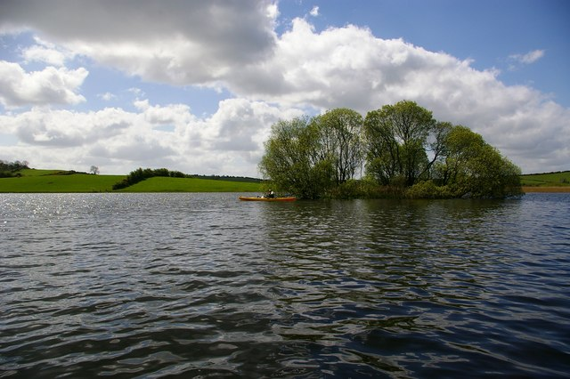 Island in Lough Ross Just about an island, actually! No solid ground at all, just an accumulation of reeds on a bit of shallow lakebed, which some willows have colonised.